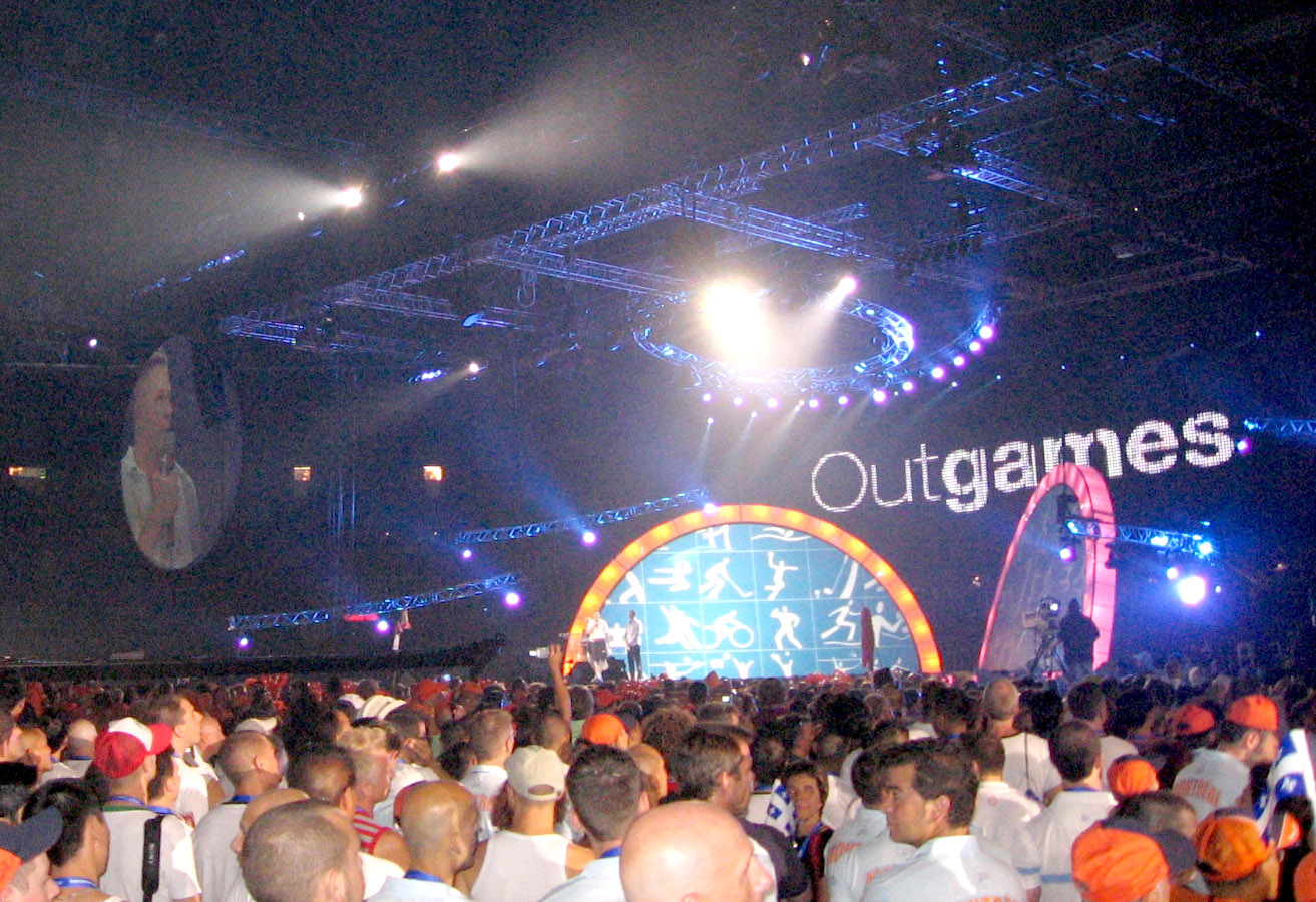 Opening ceremony of the 2006 World Outgames in Montreal, July 29, 2006.